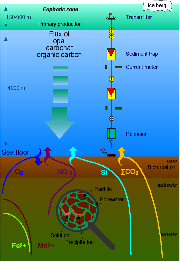 Grafic and concentration profiles describing the flux of nutrients in the ocean and sediments